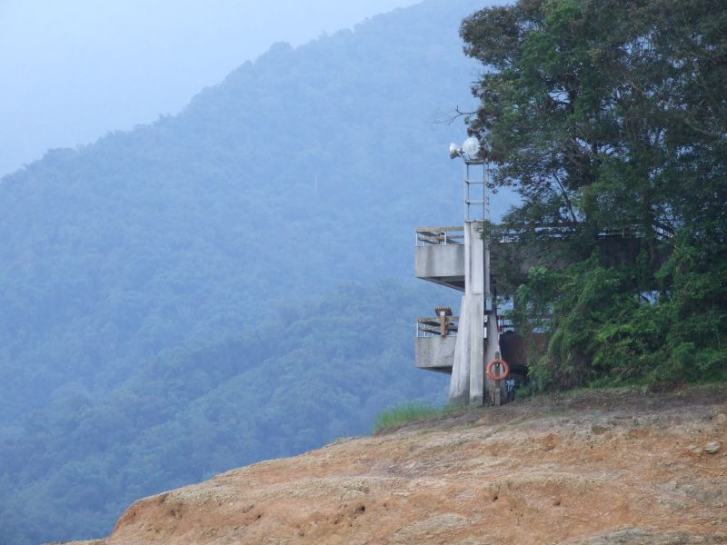 Sun Moon Lake Light Post